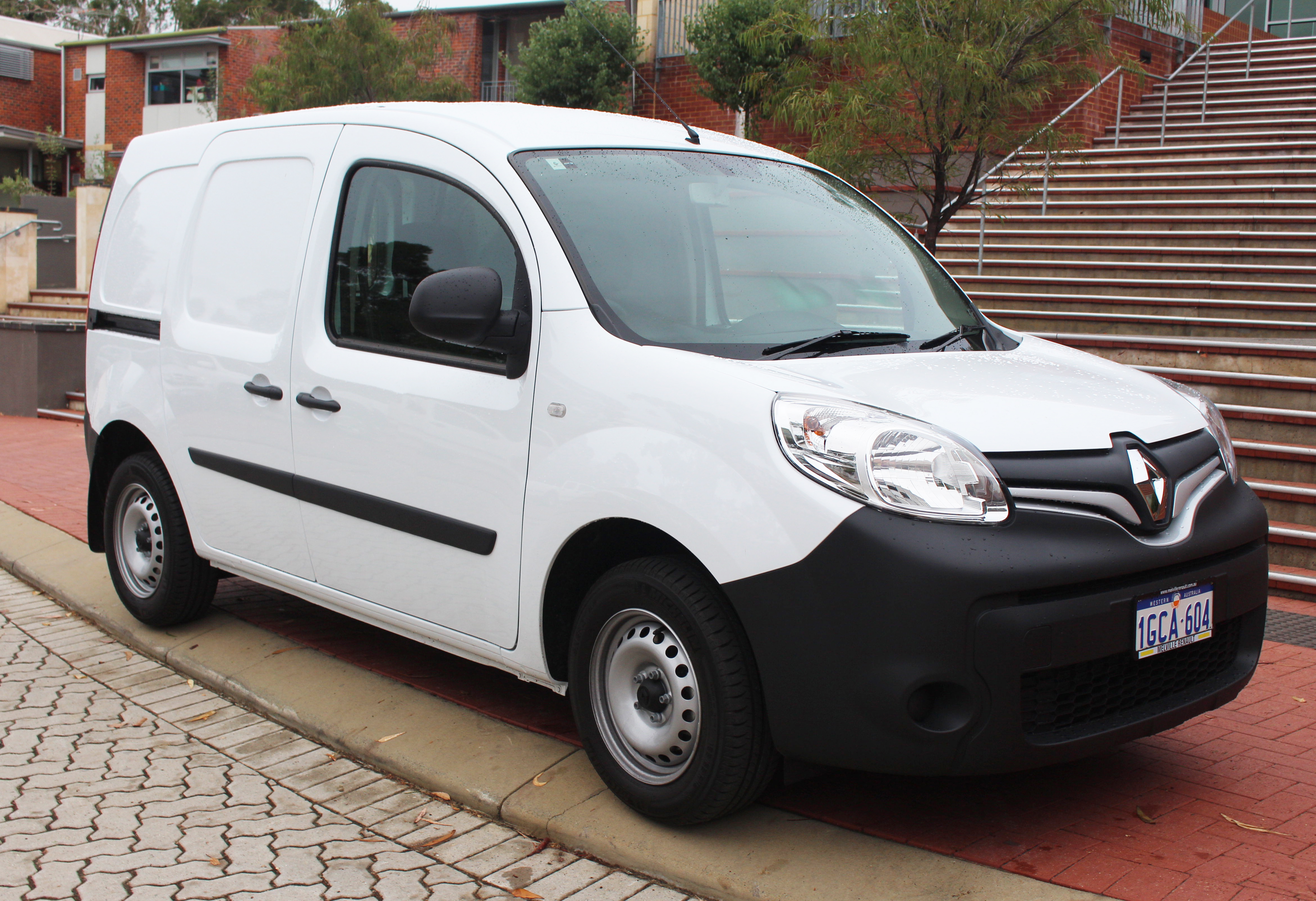 2016 Renault Kangoo (X61 Series II) van. Photographed in Swanbourne, Western Australia, Australia.